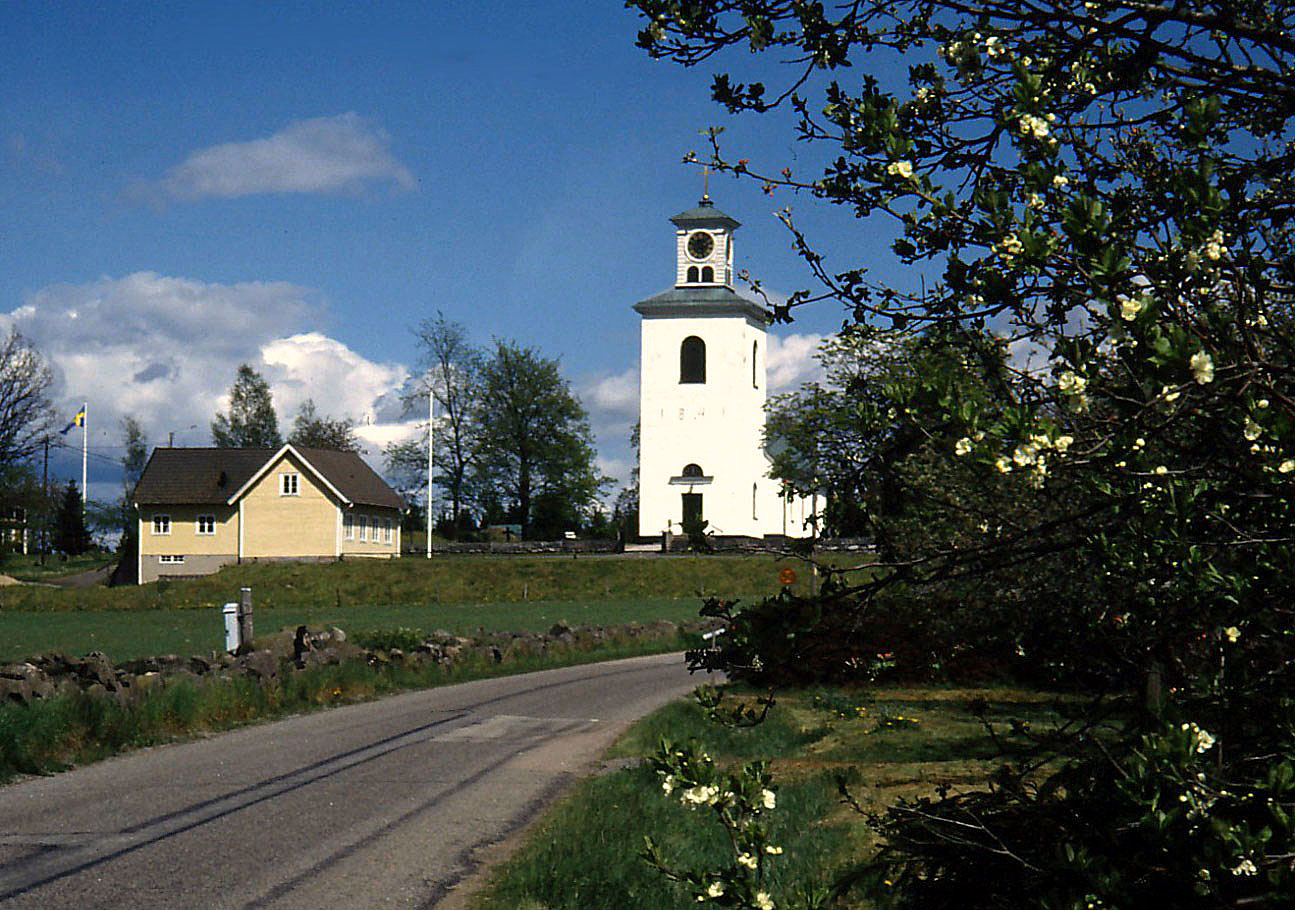 Uråsa churchThe church which outwardly has the character of a neoclassical church building dates back to 1100 or 1200s. In the 1800s the church was radically altered. 1841 erected tower and provided with a period superstructure.